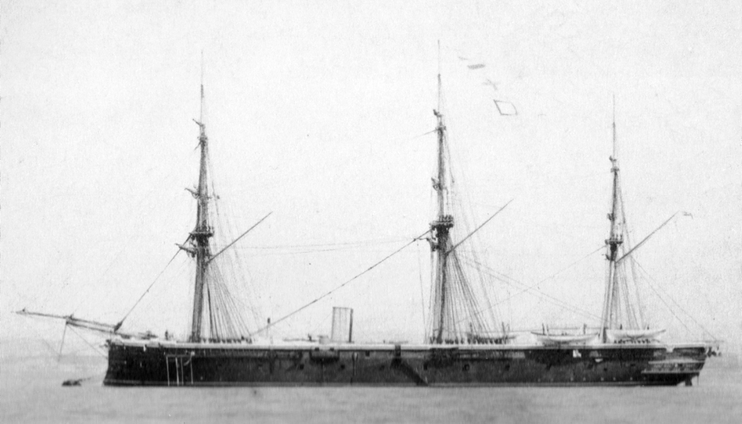 British Broadside ironclad HMS Defence as she appeared after 1866.